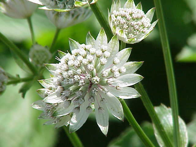 Species: Astrantia major Family: Umbelliferae Image No. 7